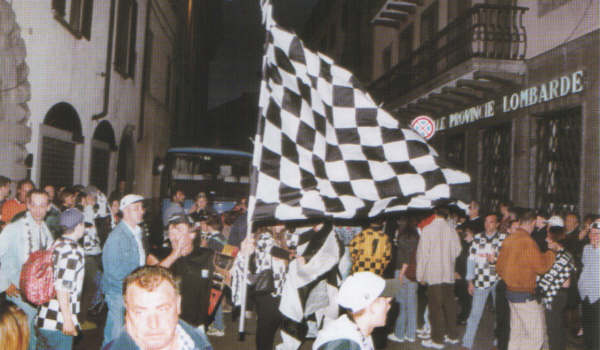 alzano in b